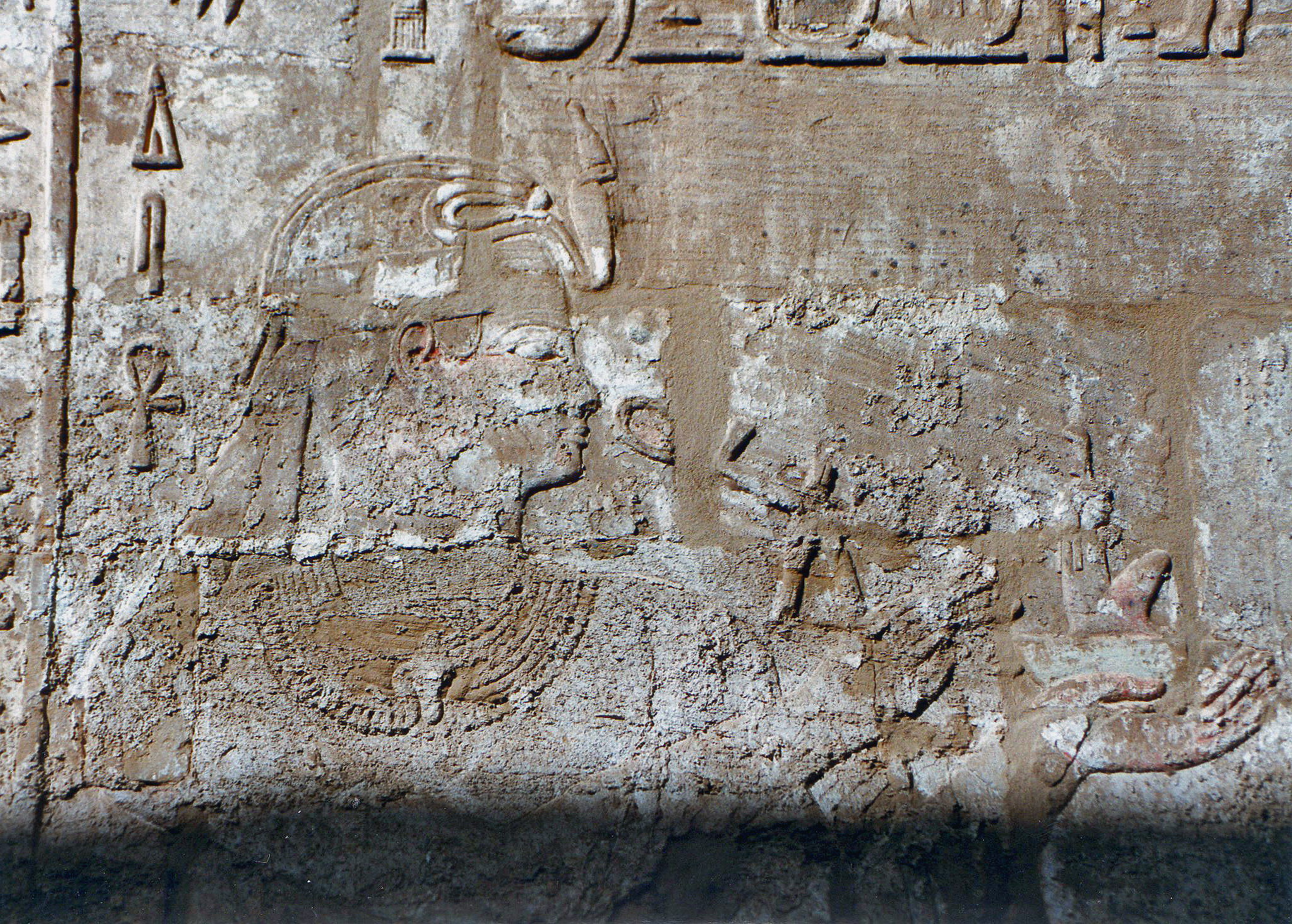 Eroded relief of pharaoh Osorkon III, giving a statuette of Maat to the god Amun. Karnak. Chapel of Osiris within the sacred area of ​​the Temple of Amun.